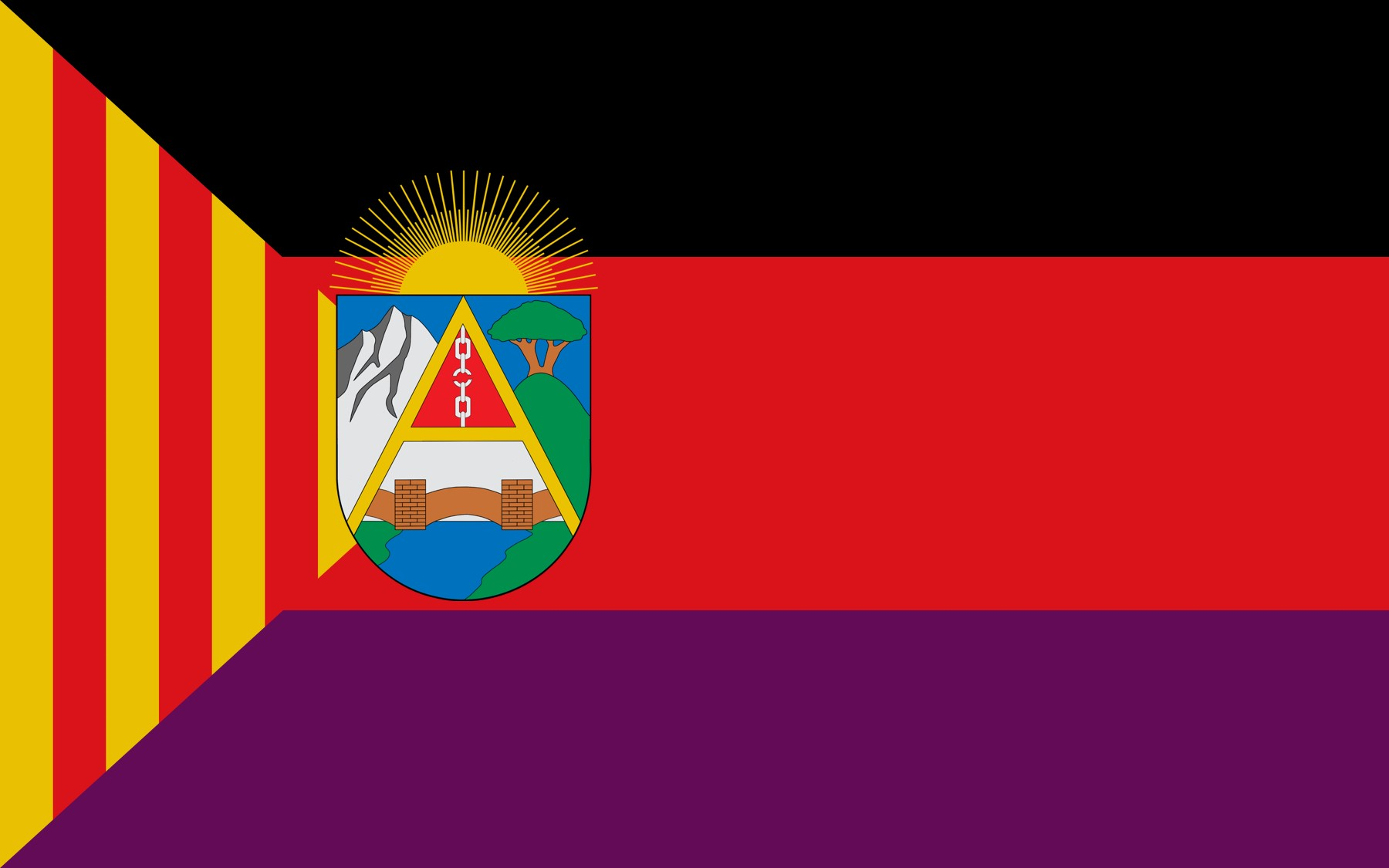 Flag of the Regional Defense Council of Aragon during Spanish Civil War